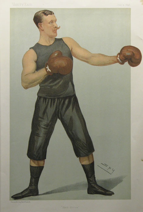 Caricature of Captain Edgeworth Johnstone. Caption read "Hard Hitter".